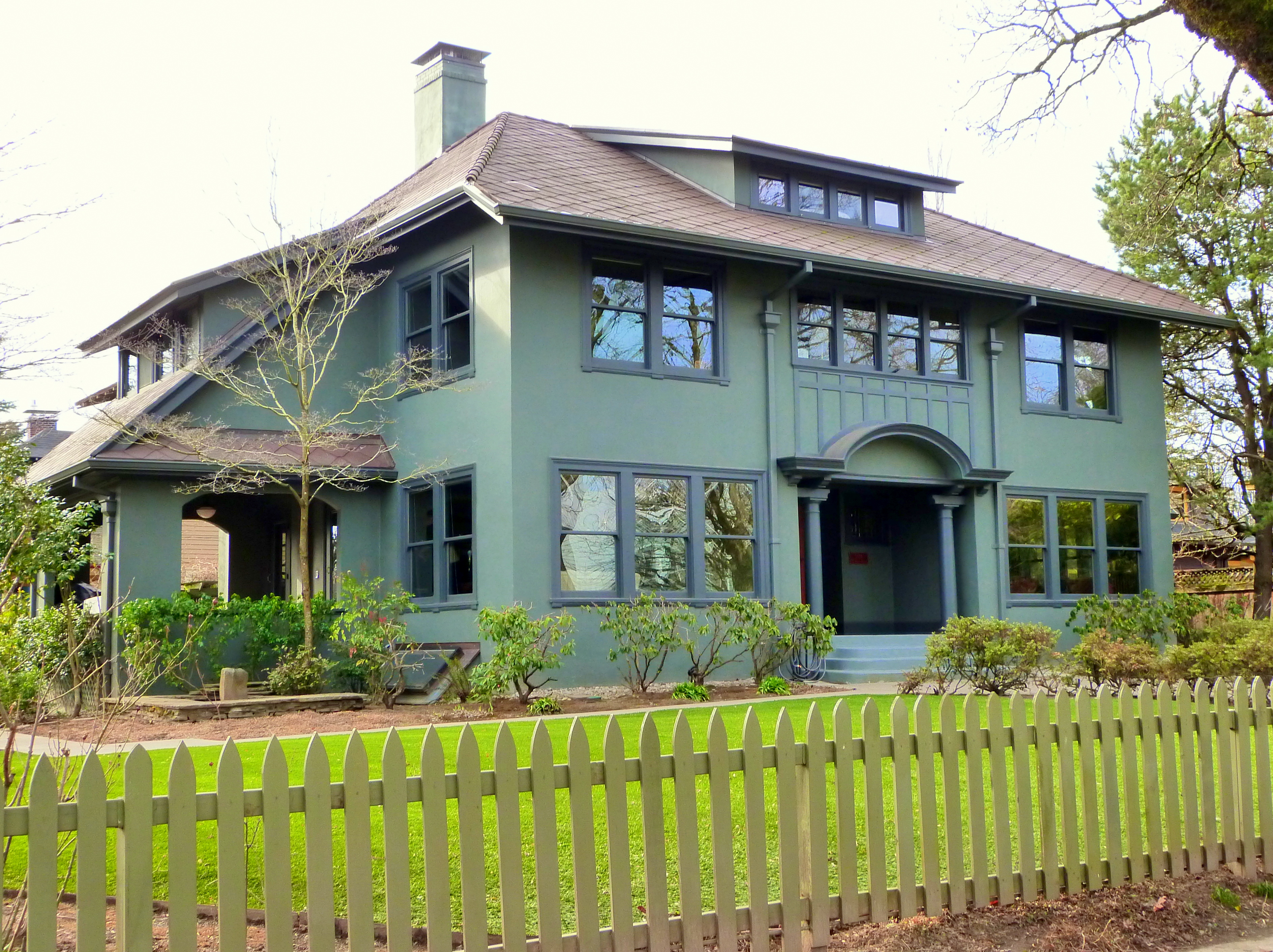 The historic Barnhart–Wright House (built 1913), located at 1828 Northeast Knott Street in Portland, Oregon, United States, is listed on the U.S. National Register of Historic Places. It is additionally a contributing resource in the National Register-listed Irvington Historic District.